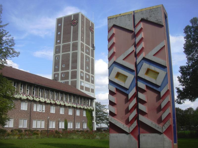 Town hall of Kornwestheim, Germany